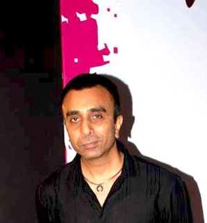 Bollywood director Sanjay Gandhvi at Pearl Waves concert